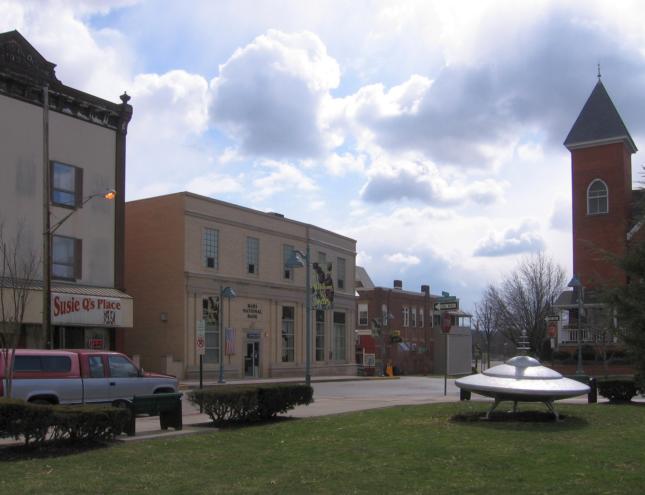 Downtown Mars, Pennsylvania with the Flying Saucer in the foreground.